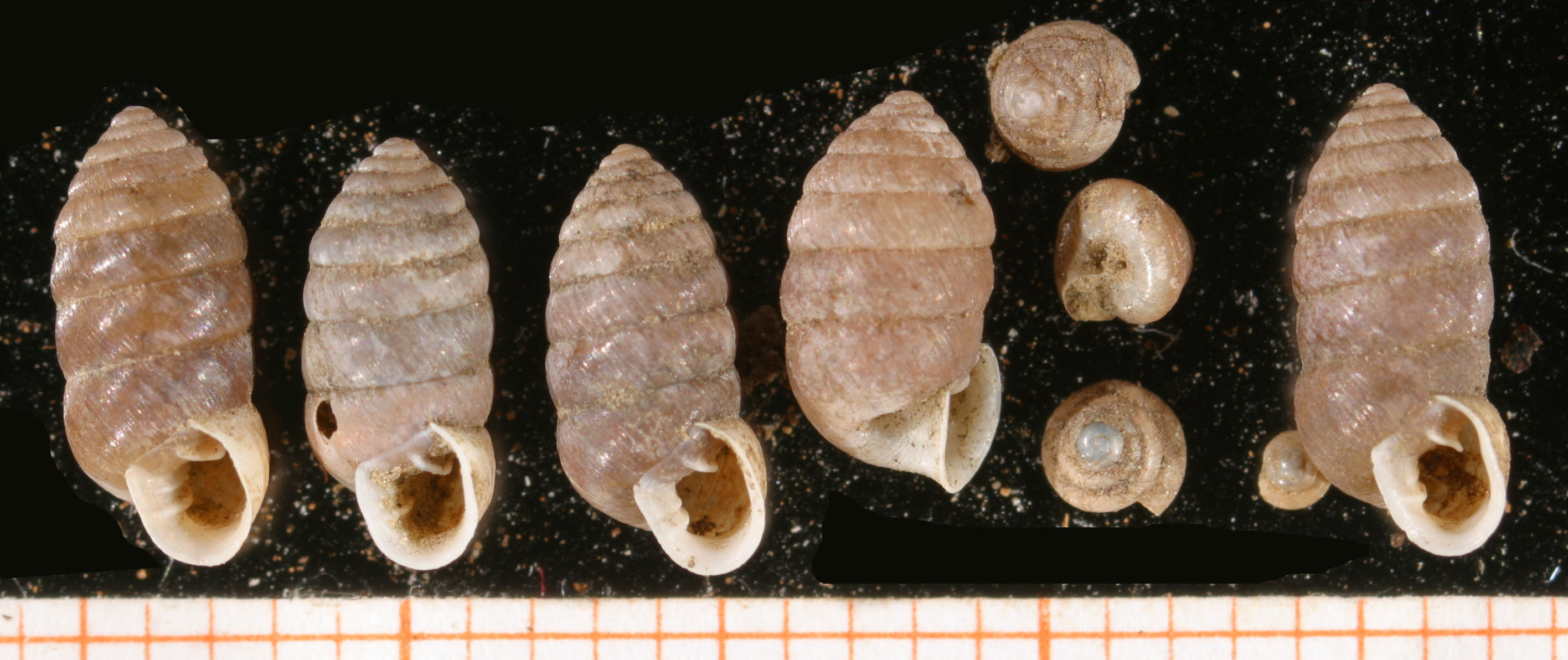 Shells of Orcula dolium (Draparnaud, 1801). Locality: Kaiserstuhl, Baden-Württemberg, Germany.